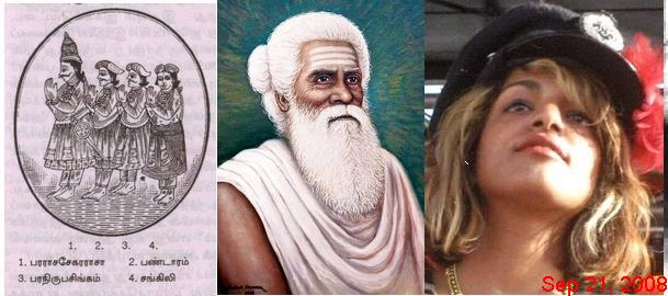 It is a collage of number of Sri Lankan tamil people made from already existing Wikicommons imgaes as listed below